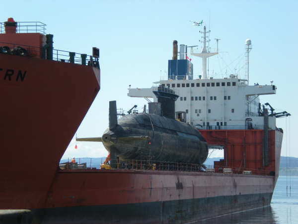 Hmcs chicoutimi on the TERN at Odgen Point, Victoria, B.C. Shipname: Tern IMO Number: 8000977 MMSI Number: 306029000 Callsign: PJXY Length: 181 m Beam: 32 m Information about Tern may be found at IMO 8000977.A ship can change name and flag state through time, but the IMO number remains the same through the hull's entire lifetime. As a result, it can be useful to identify a ship by using the IMO number.